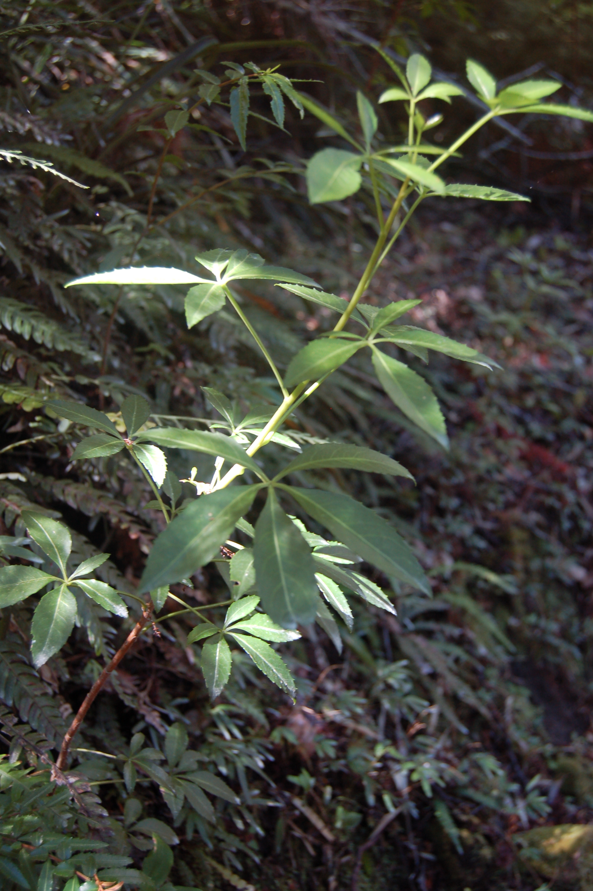 Juvenile plant in a forest of the Región de los Ríos, Chile